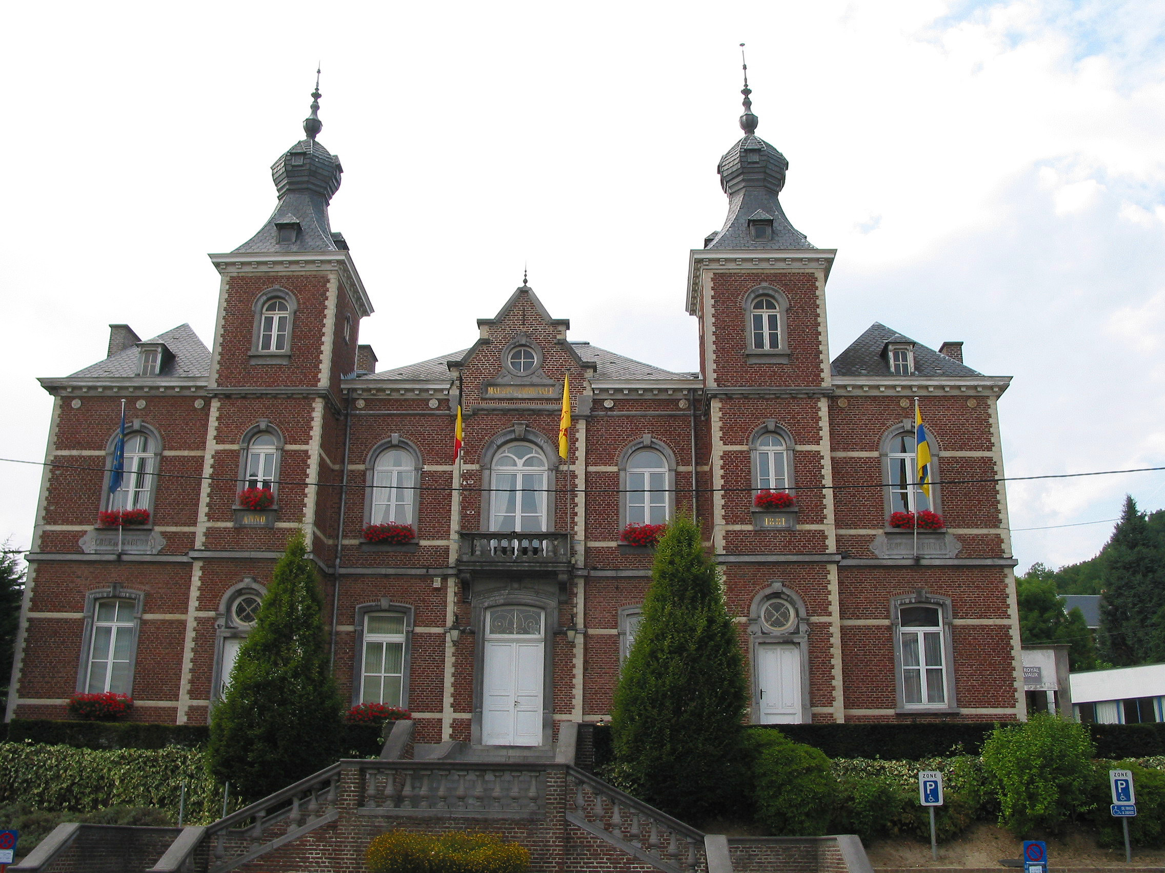 Ottignies-Louvain-la-Neuve (Belgium), the town hall (1881).